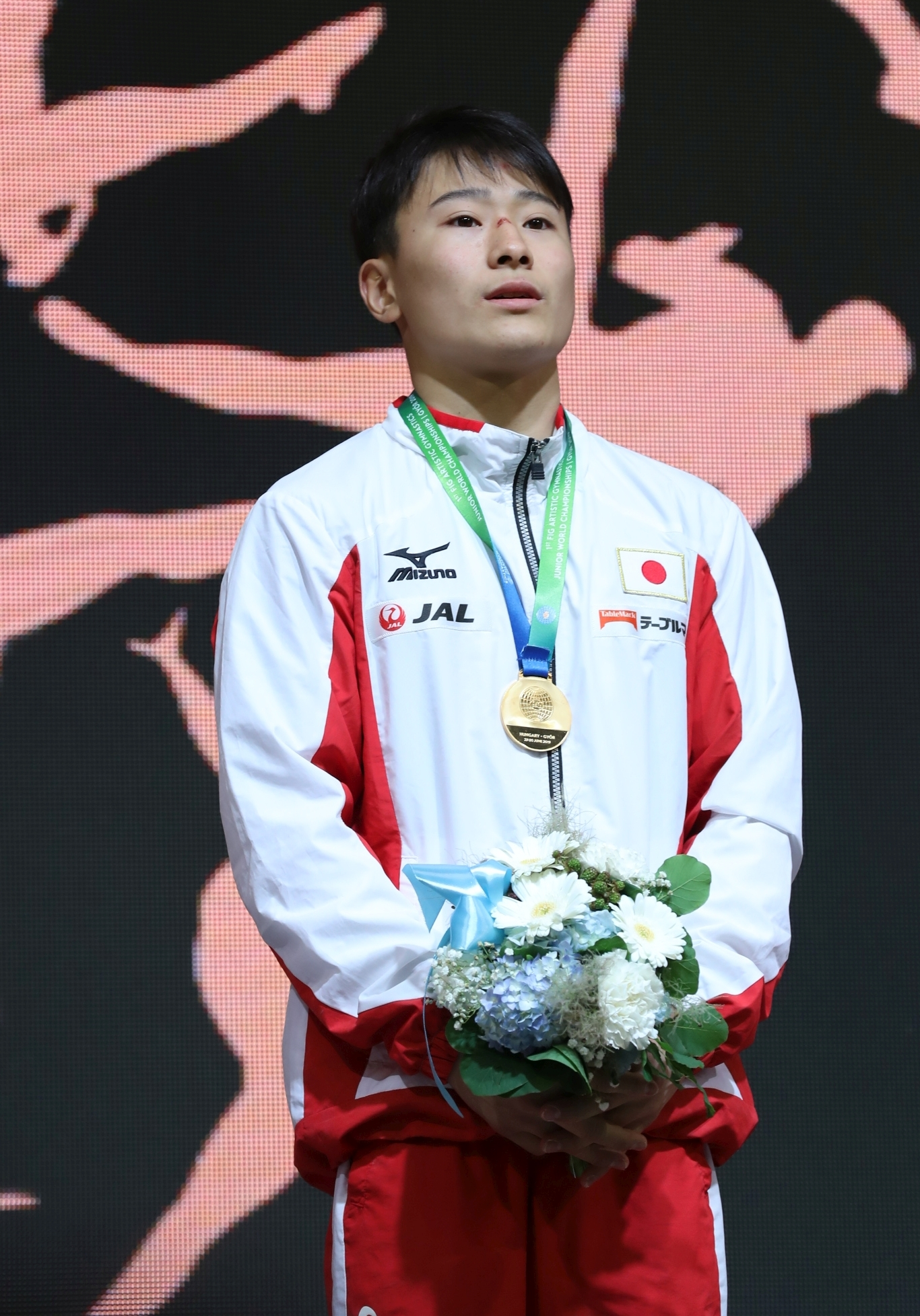 Pommel horse victory ceremony during the boys' apparatus finals at the 1st FIG Artistic Gymnastics Junior World Championships on 29 June 2019 in Győr, Hungary. Depicted: Takeru Kitazono.